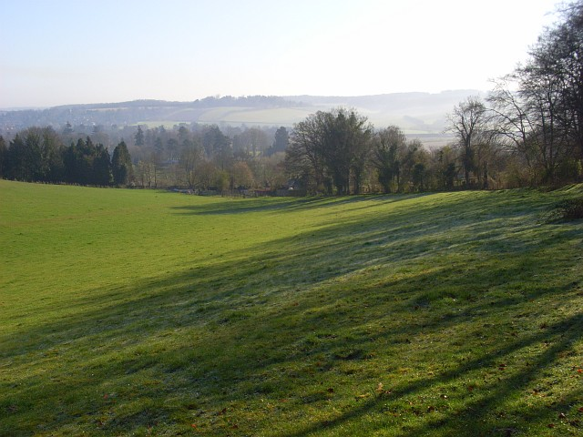 The Holies, a National Trust site above the village of Streatley, in the English county of Berkshire. The view is across the Thames and into the Chilterns. For more information see the Wikipedia articles Lardon Chase, the Holies and Lough Down.